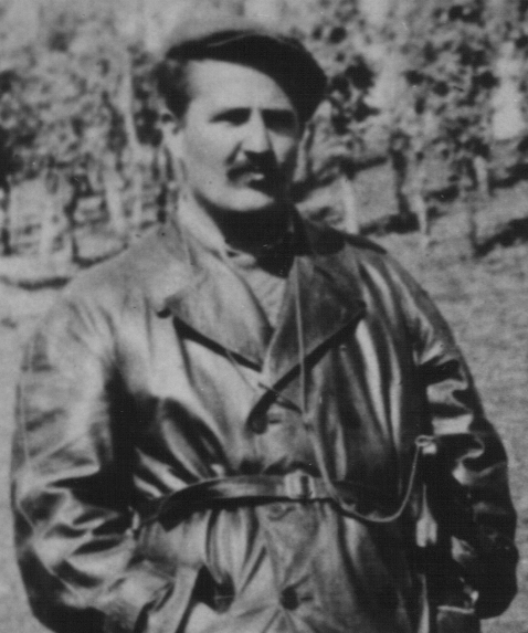 Delegates of the Yugoslav Communist Central Committee Miladin Popović, standing to the left, and Dušan Mugoša, sitting to the left, with Albanian Communist leader Enver Hoxha sitting to the right, in 1942 or 1943.